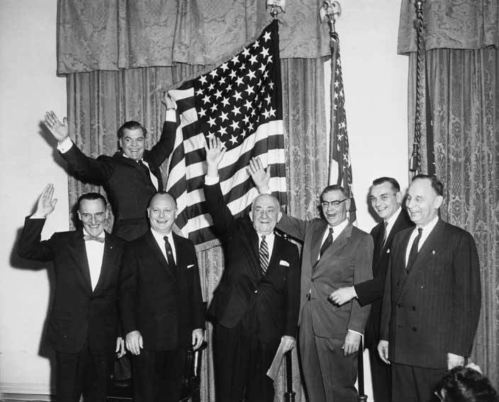 Alaska people celebrating Alaska statehood. Title Celebrating the Statehood of Alaska as the 49th State. Description Delegation celebrates Alaska's Statehood by posing in front of a 49 star flag. Identified are Representative Ralph Rivers (far left), U.S. Interior Secretary Fred Seaton (next to Rivers with arms at side), Ernest Gruening (beneath flag), Bob Bartlett (next to Gruening in light colored suit), Bob Atwood (holding flag), Mike Stepovich (second from right), and Waino Hendrickson (far right). Creator Rowe, Abbie Contributors National Park Service Photograph Ernest H. Gruening Papers, 1914-[1959-1969] 1974 Identifier UAF-1976-21-281